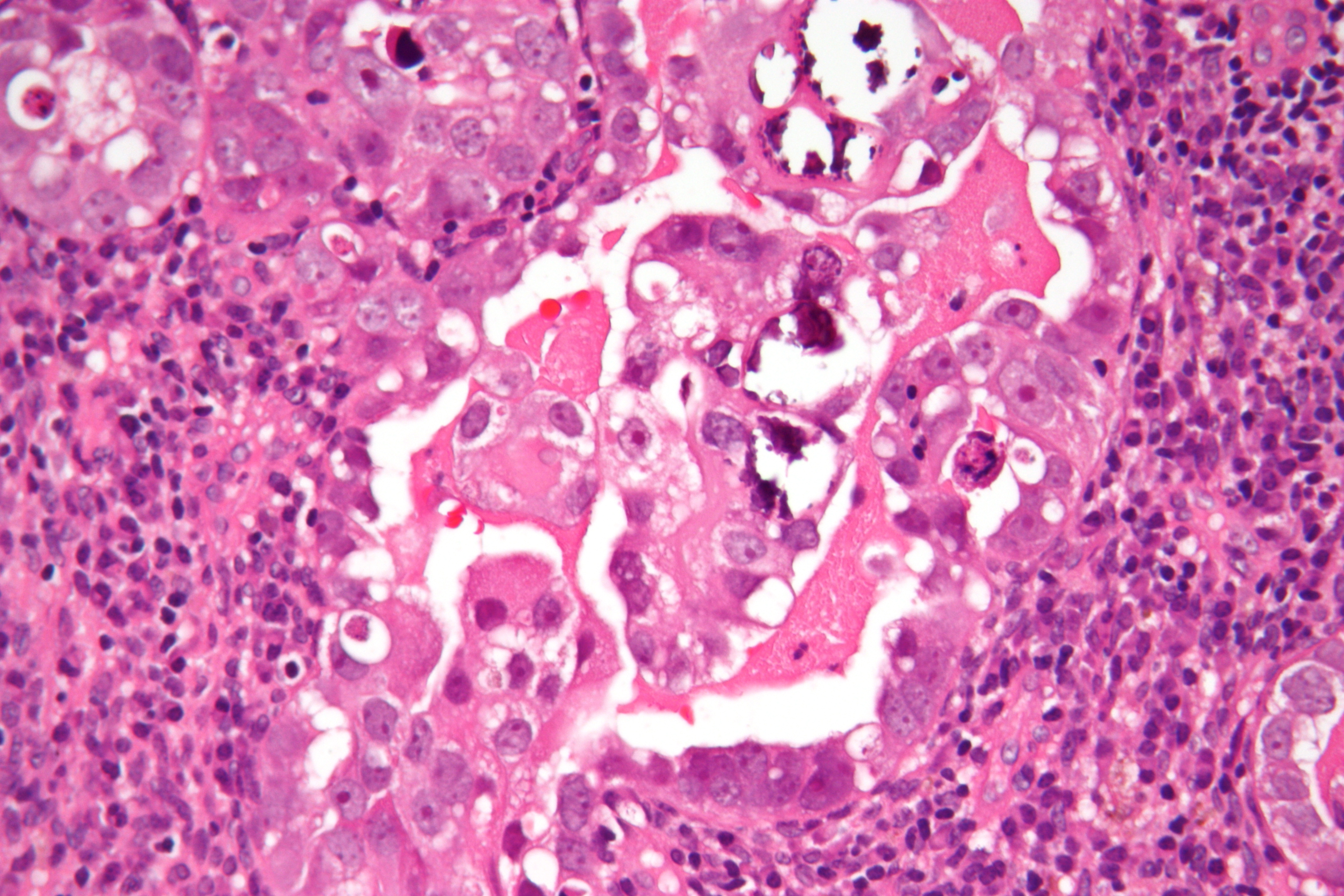 High magnification micrograph of uterine serous carcinoma, also uterine papillary serous carcinoma. H&E stain. Serous carcinoma is a less common form of endometrial cancer. It is extremely aggressive and tends to arise in the setting of atrophy. Classically, it affects post-menopausal women. Features Columnar (or cuboidal) cells with marked nuclear size variation and irregularity of the nuclear membrane. Cilia. Psammoma bodies - present in approximately 40-50% of tumours. Papillae - nipple-shaped structures with fibrovascular cores, not always present; ergo, uterine papillary serous carinoma may be a misnomer. Related images Animation showing 3-D nature of cluster. Component of animation. Component of animation. Another case. Low mag. High mag.